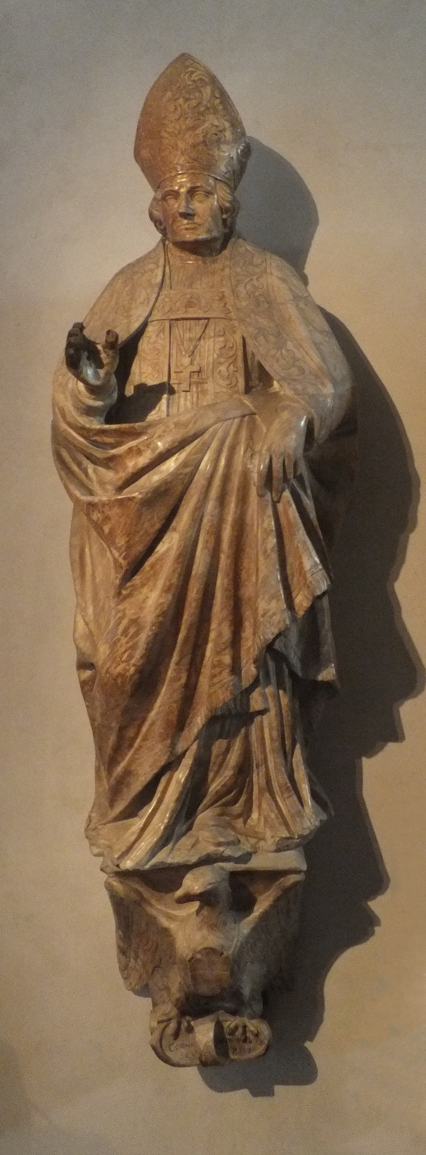 Trento, Museo Diocesano - Statue of saint Vigil, by Cornelis van der Beck This is a photo of a monument which is part of cultural heritage of Italy.